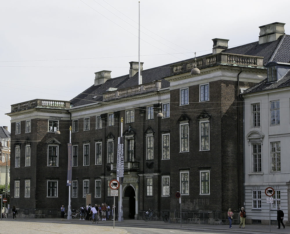 Charlottenborg in Copenhagen, Denmark. Art exhibition hall and home of the Royal Danish Academy of Art.